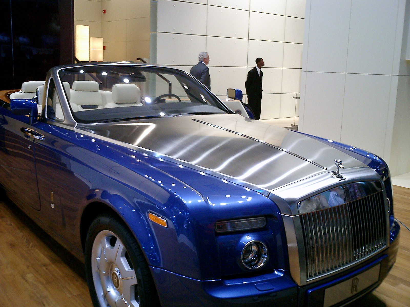 The Rolls-Royce Phantom Drophead Coupé at the 2007 North American International Auto Show